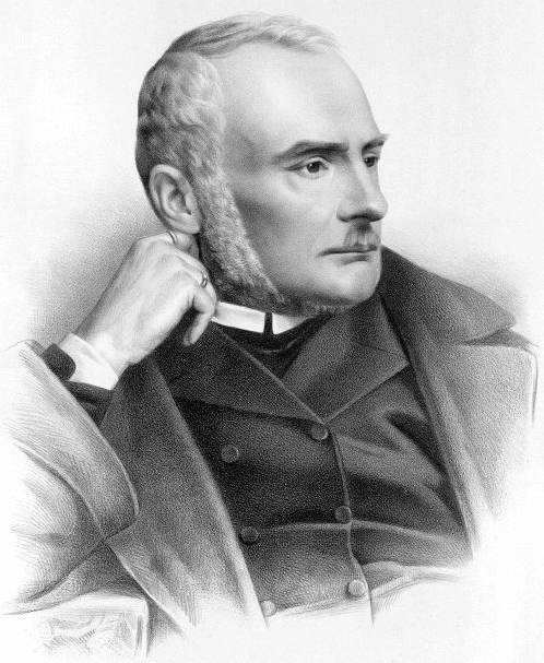 Zygmunt Krasiński